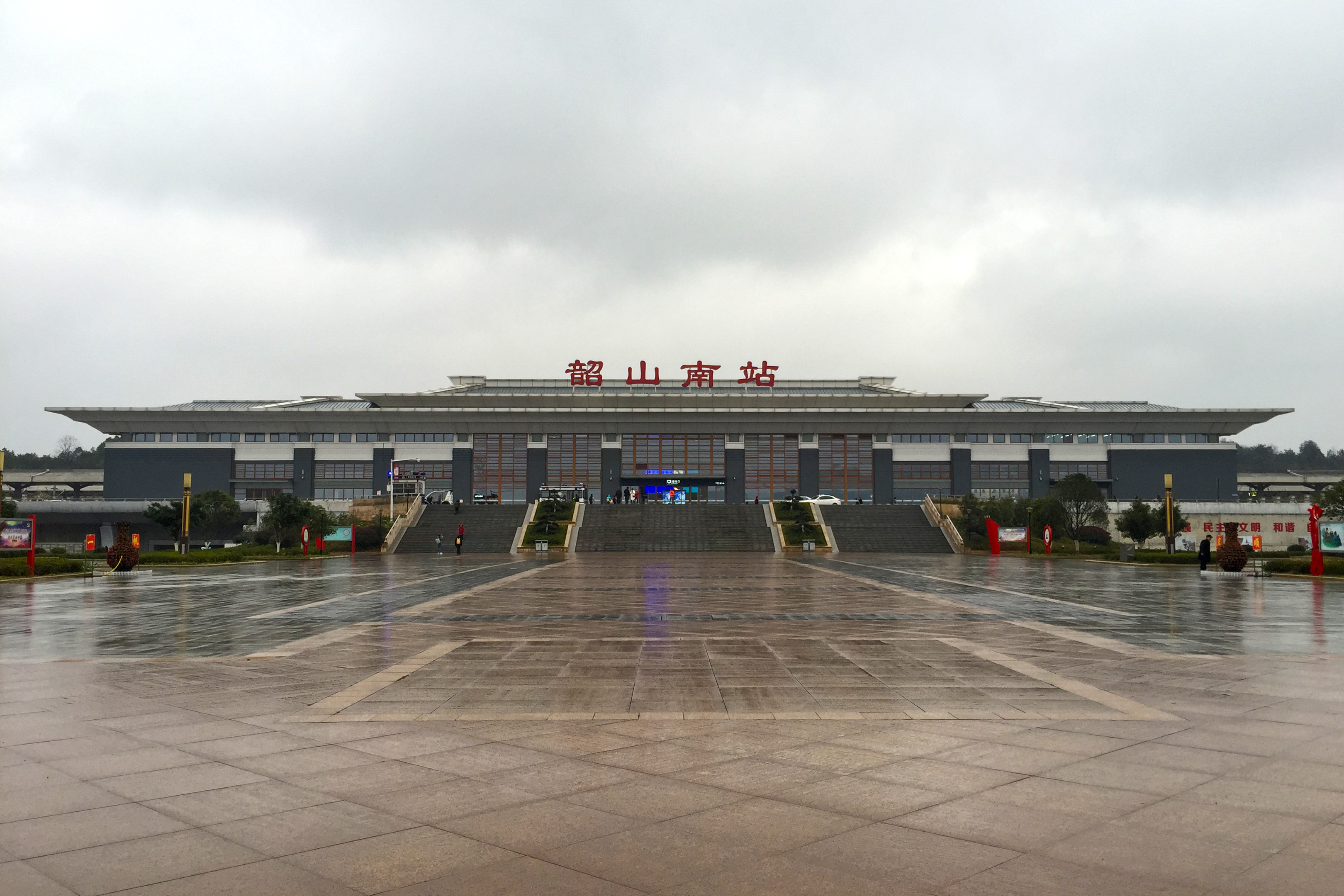 The new gateway to Mao Zedong's hometown. But its font is still CRLi... why don't they extract some of Mao's calligraphy?